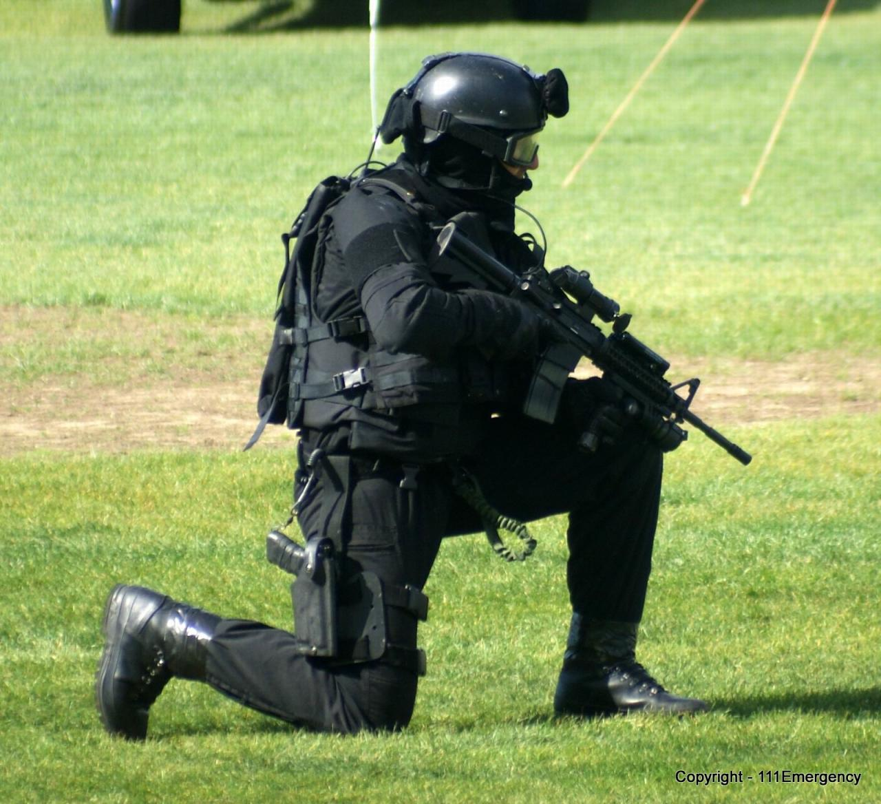 More photos at